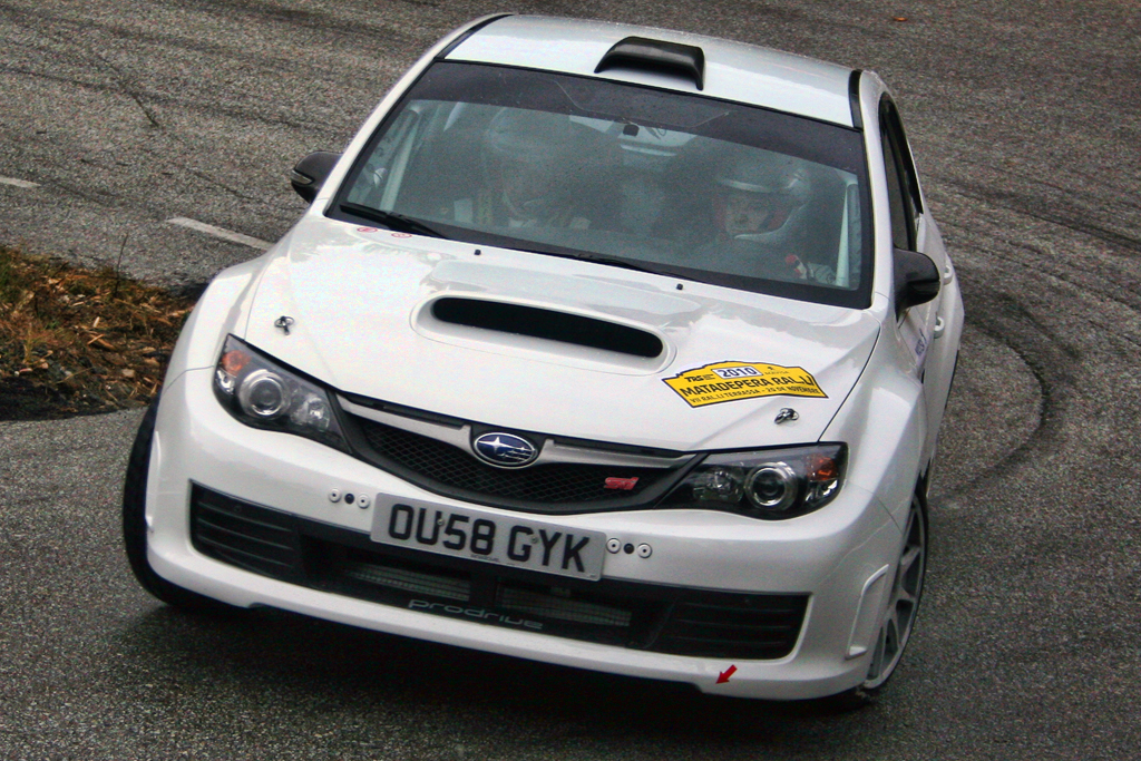 MCS AUGUST NAVARRO CARLES RESCLOSA